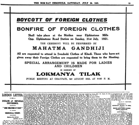 Newspaper The Bombay Chronicle, July 30, 1921.